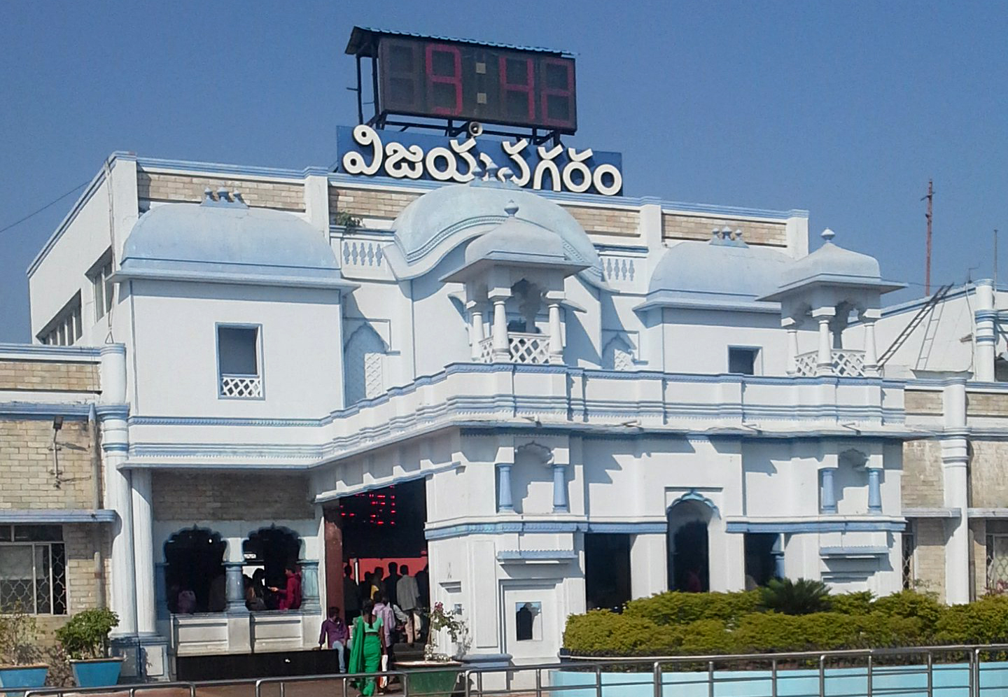 Vizianagaram Railway station main entrance view